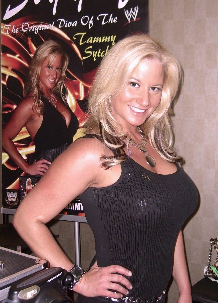 Professional wrestler Tammy Lynn Sytch at the Big Apple Convention in Manhattan, October 2, 2010. This photo was created by Luigi Novi. It is not in the public domain, and use of this file outside of the licensing terms is a copyright violation.